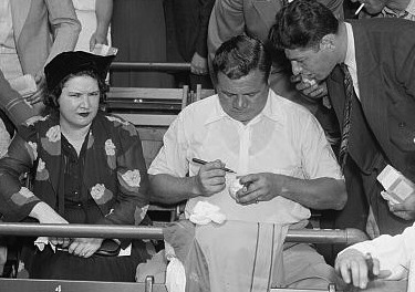 Claire Ruth, with her husband Babe Ruth at Griffith Stadium for the 1937 MLB All-Star Game, July 7, 1937. This file has been extracted from another file: Babe Ruth 1937.jpg